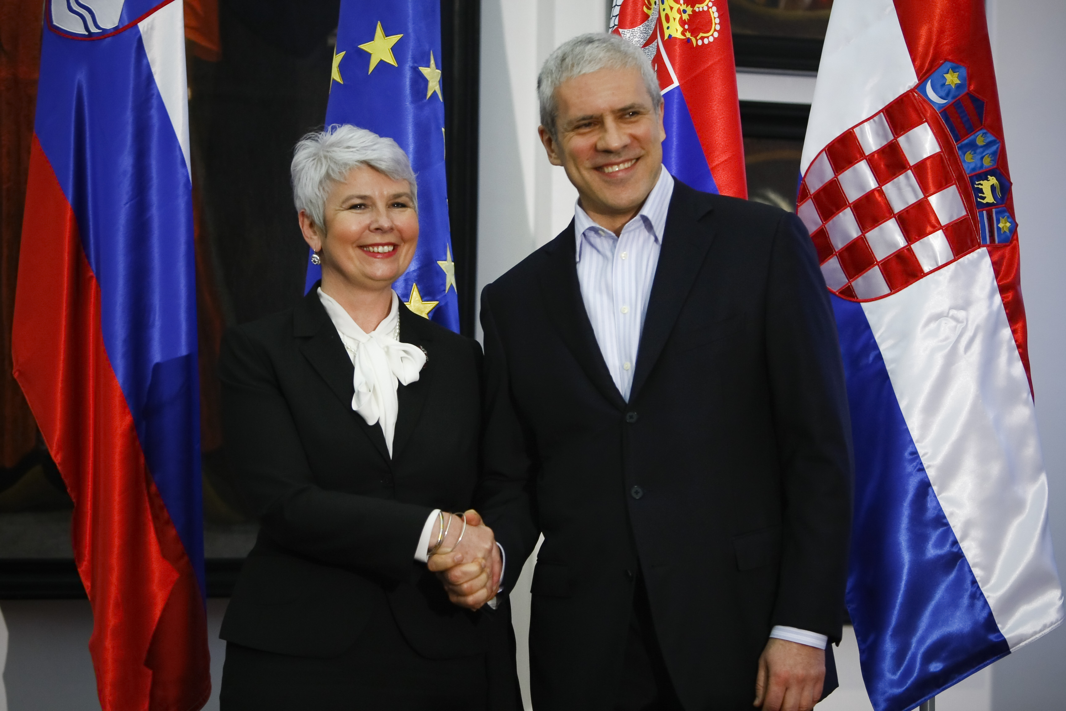 Borut Pahor, Jadranka Kosor and Boris Tadić in 2010.